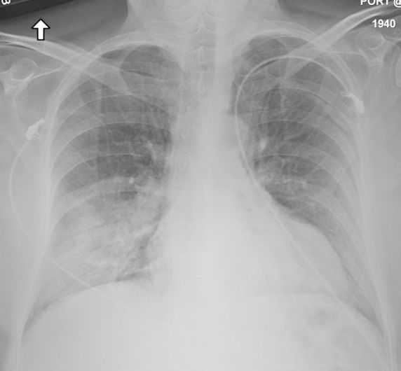 Chest X-ray of the first US case of MERS.